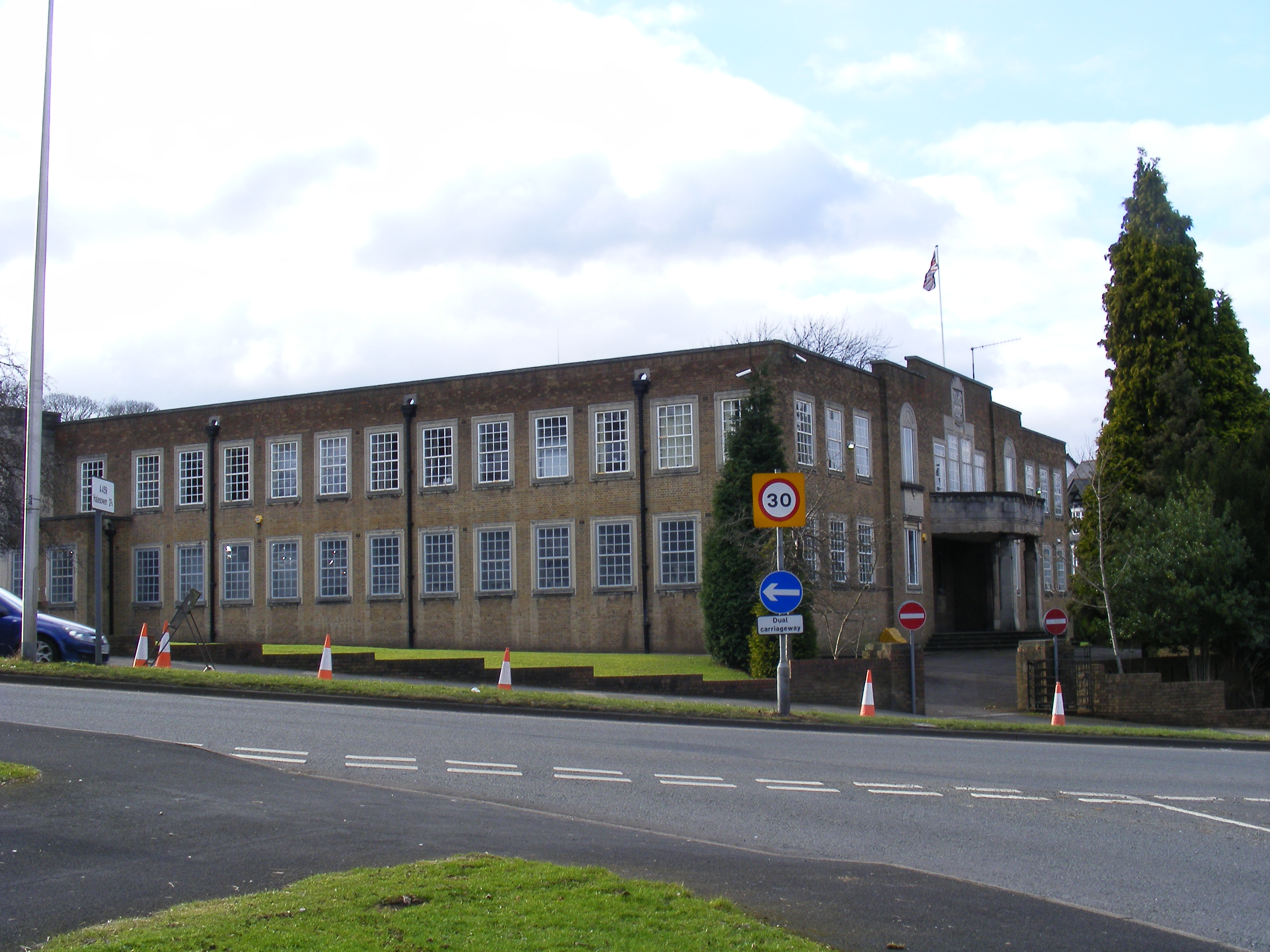 Cradley Heath Council House, Haden Hill Park. This stands on the junction of Dudley Road and Barrs Road. Haden Hill House is on the peak, just behind and to the left of the COuncil House in this view.